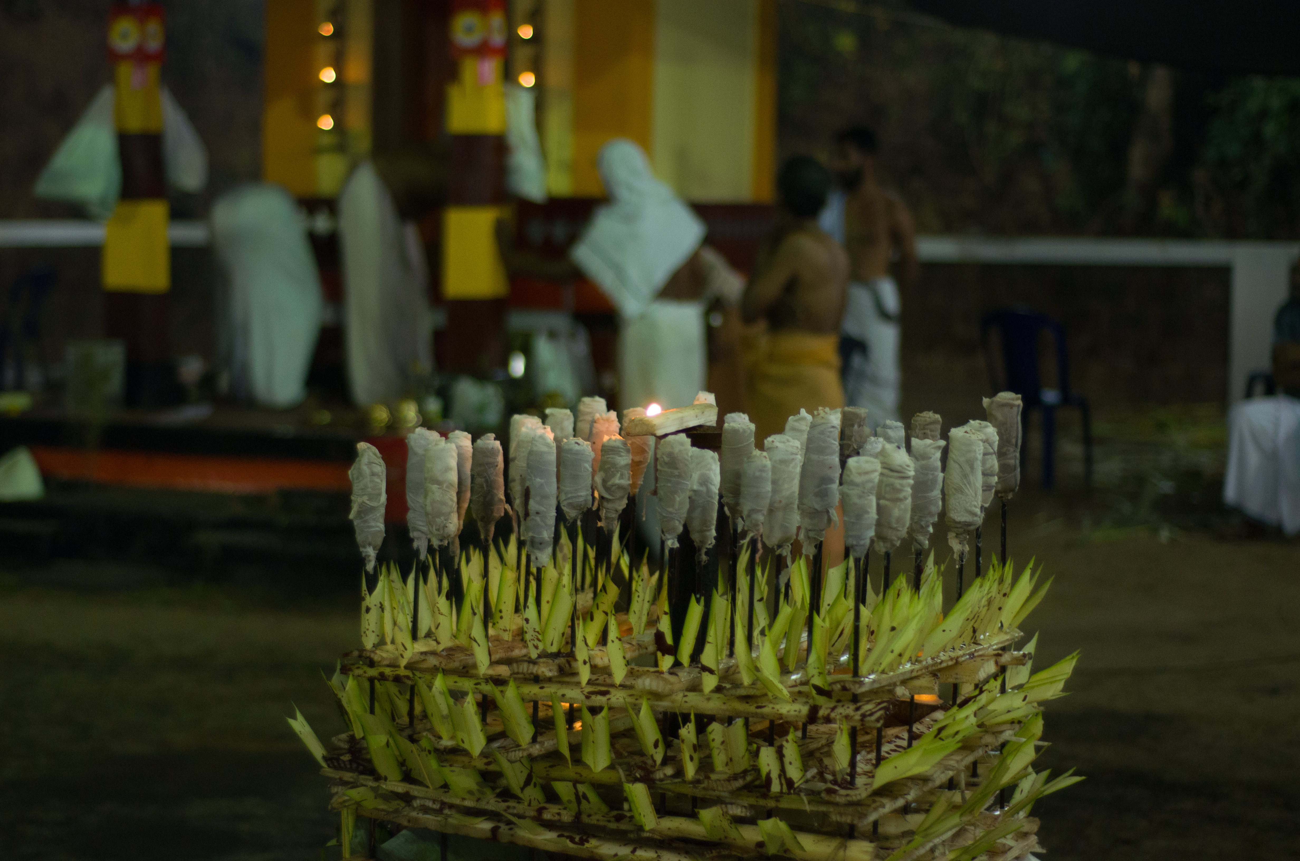 A decorated builtup area known as Chemmarathi Thara as part of Kathivanoor theyyam ritual